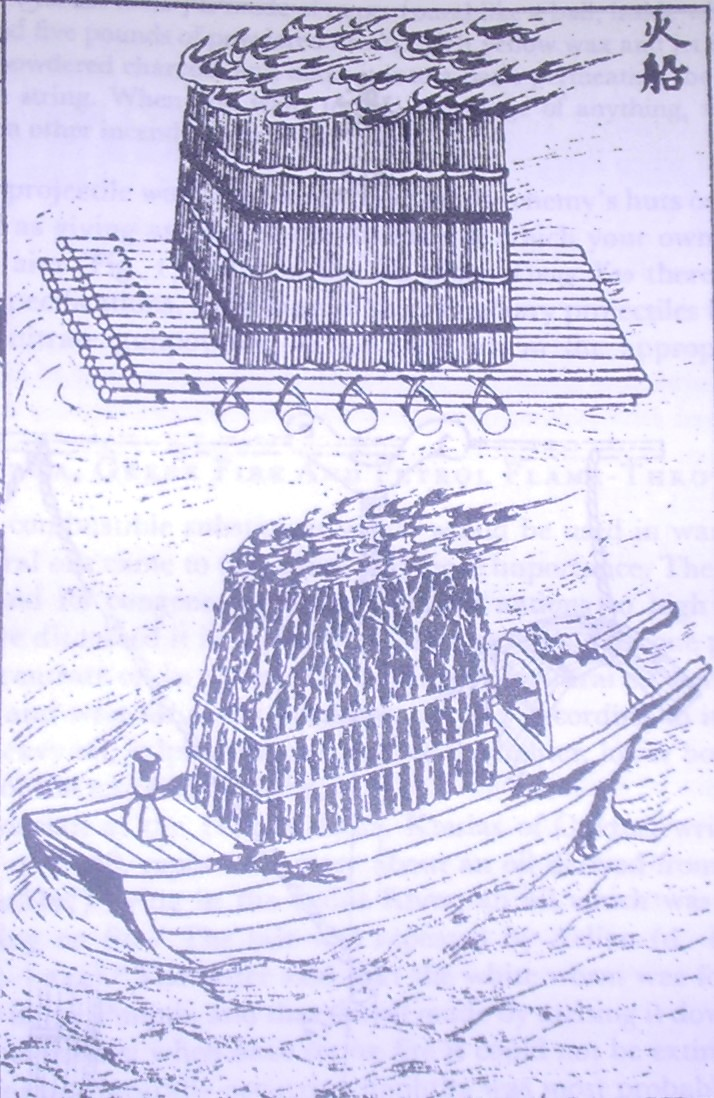 Chinese fire ships used by the navy as floating incendiaries, from the Wujing Zongyao military manuscript written in the year 1044 during the Song Dynasty. This picture also appears in Joseph Needham's book Science and Civilization in China: Volume 5, Chemistry and Chemical Technology, Part 7, Military Technology; the Gunpowder Epic.